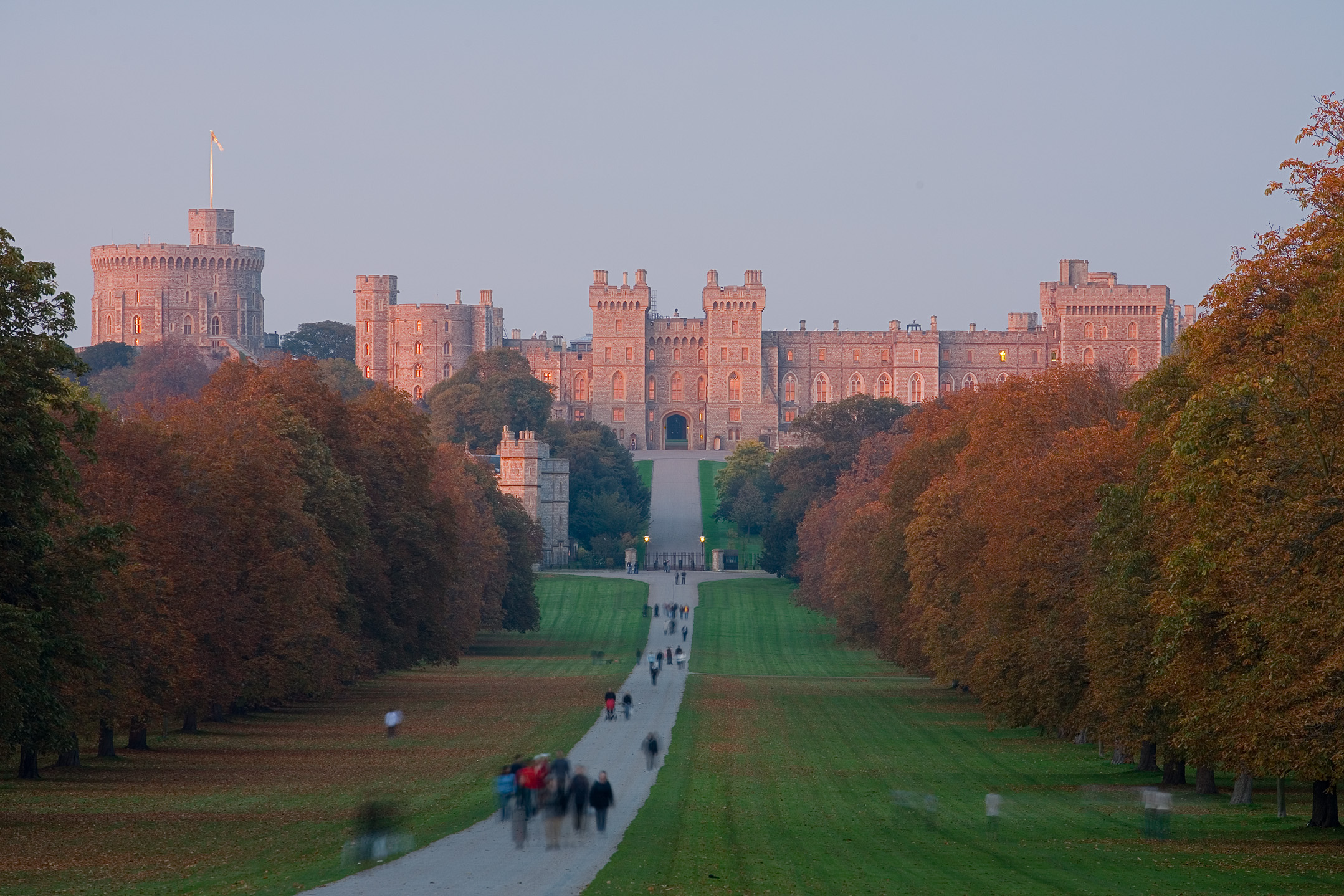 Windsor Castle at sunset as viewed from the Long Walk in Windsor, England. Taken by myself with a Canon 5D and 70-200mm f/2.8L lens at 200mm.